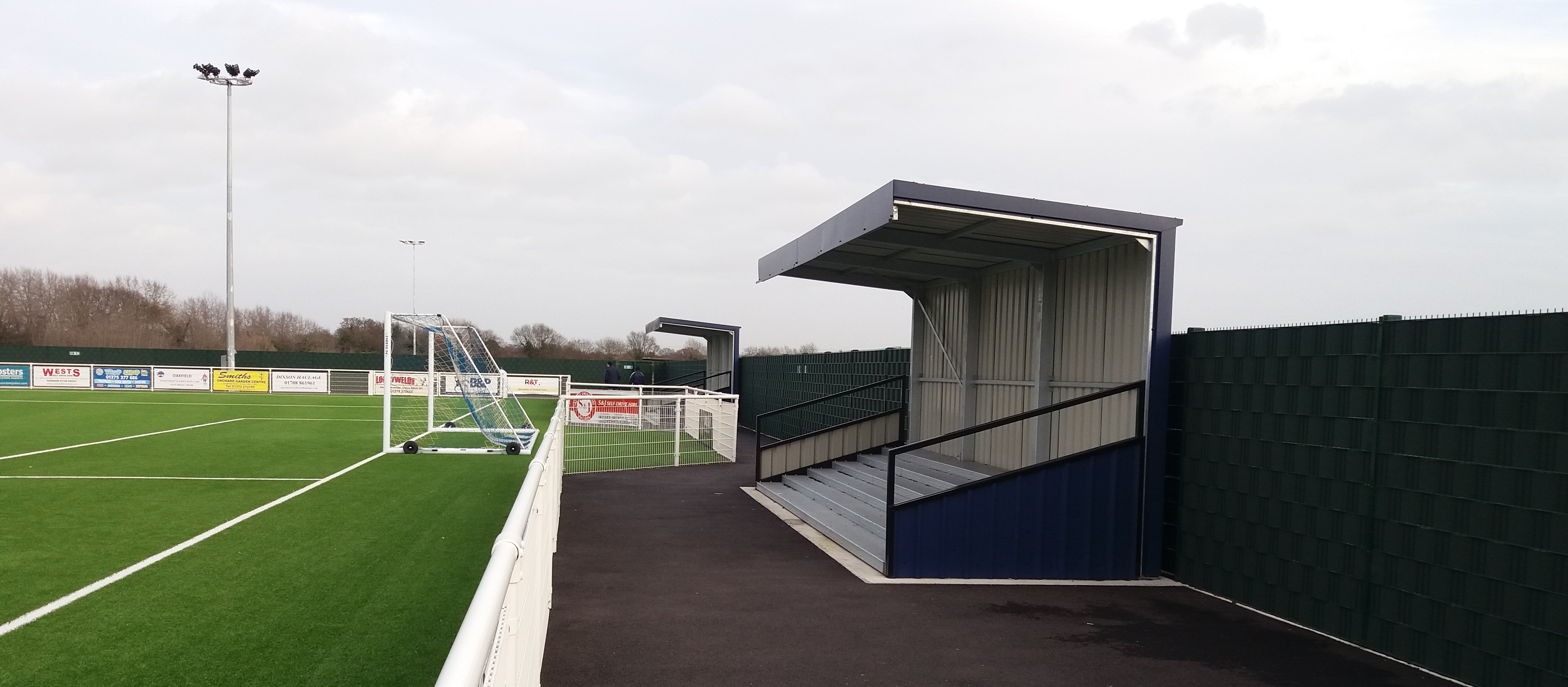 The stands behind one goal at Aveley FC's Parkside ground.